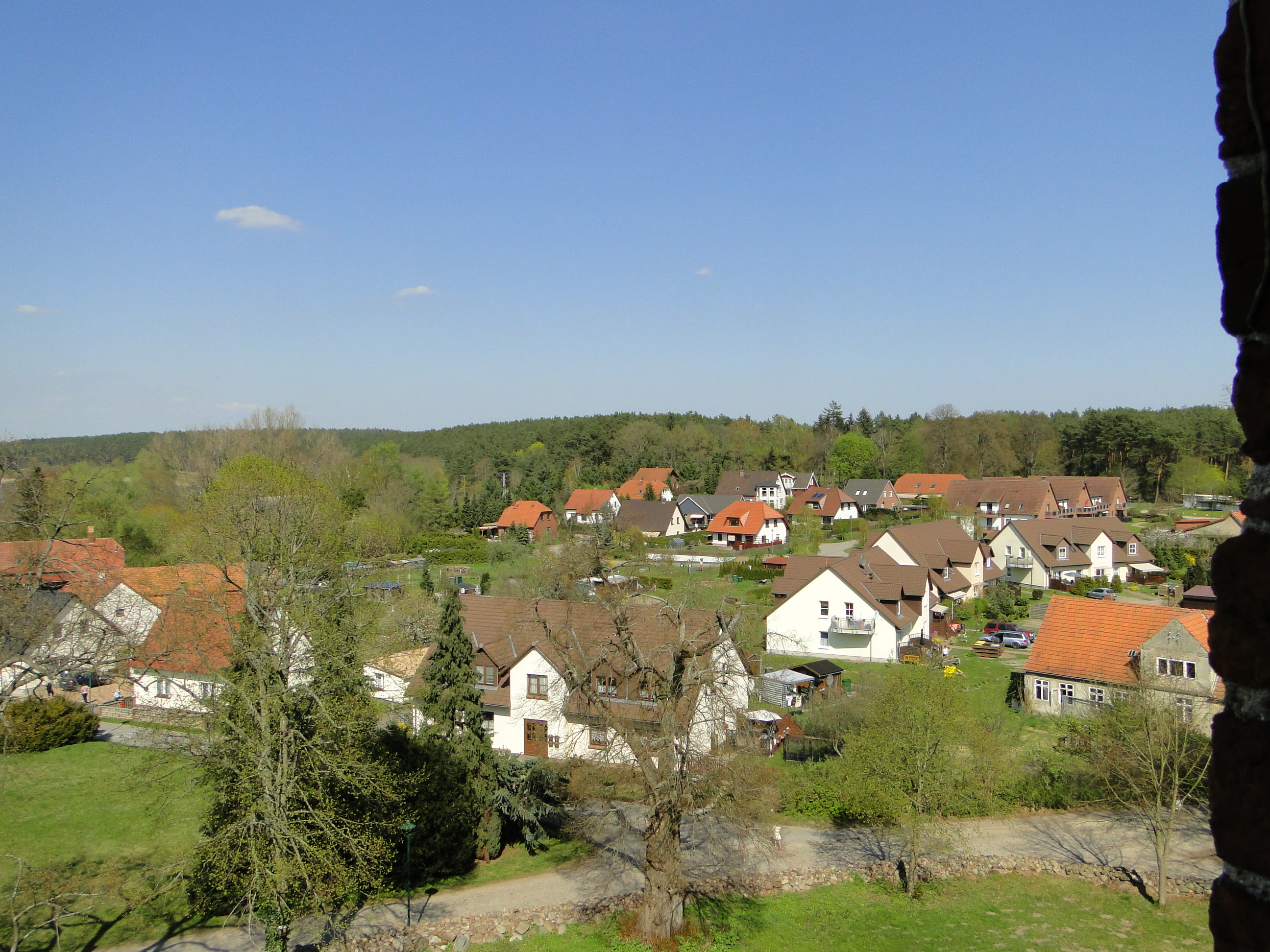 Village view from church tower in Lohmen, district Güstrow, Mecklenburg-Vorpommern, Germany